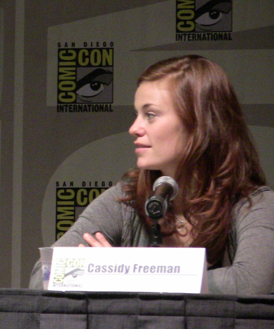 Actress Cassidy Freeman – Comic-Con 2009 - Smallville - San Diego, Calif. - July 26, 2009.